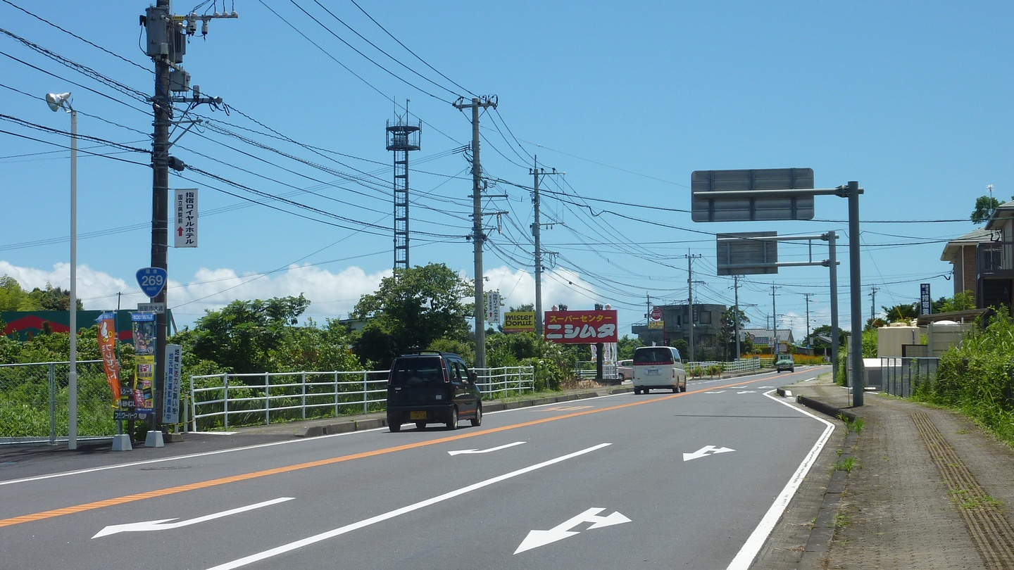 The National Route 269 in Ibusuki City, Kagoshima Prefecture, Japan.